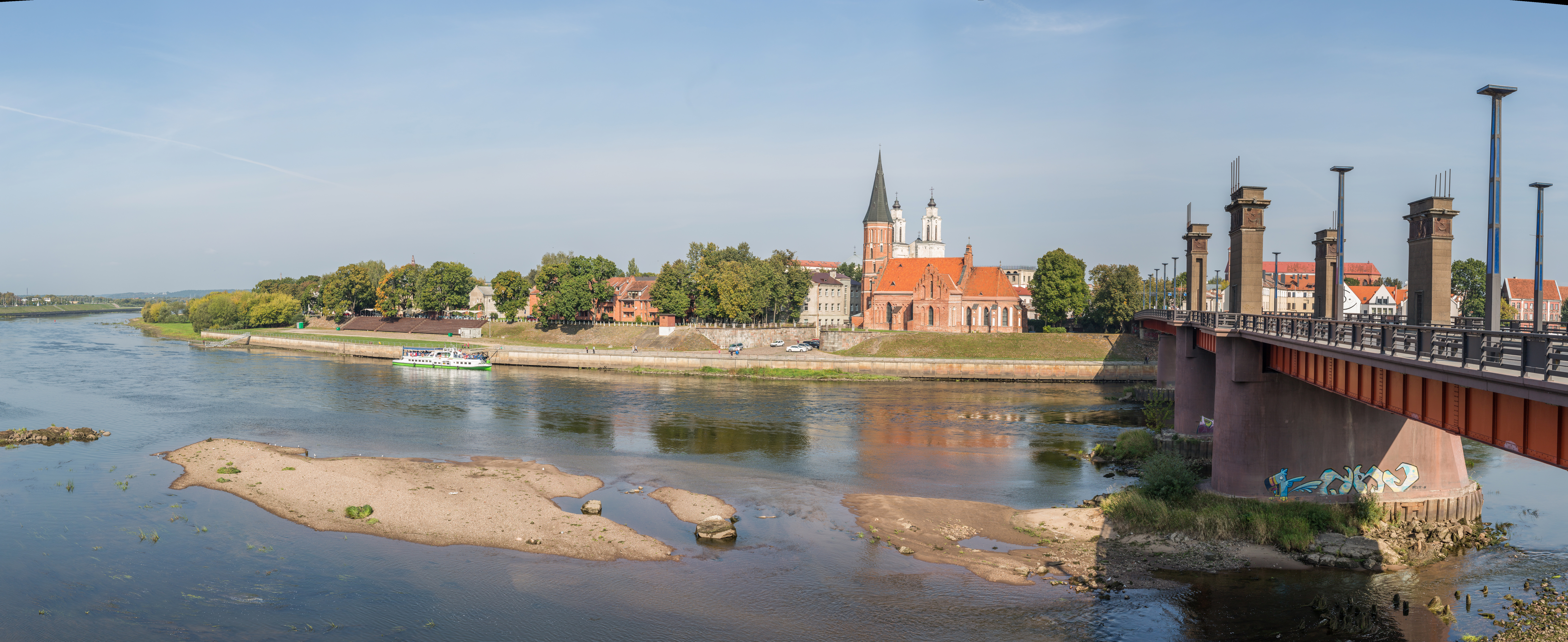 Vytautas the Great Bridge in Kaunas, Lithuania.